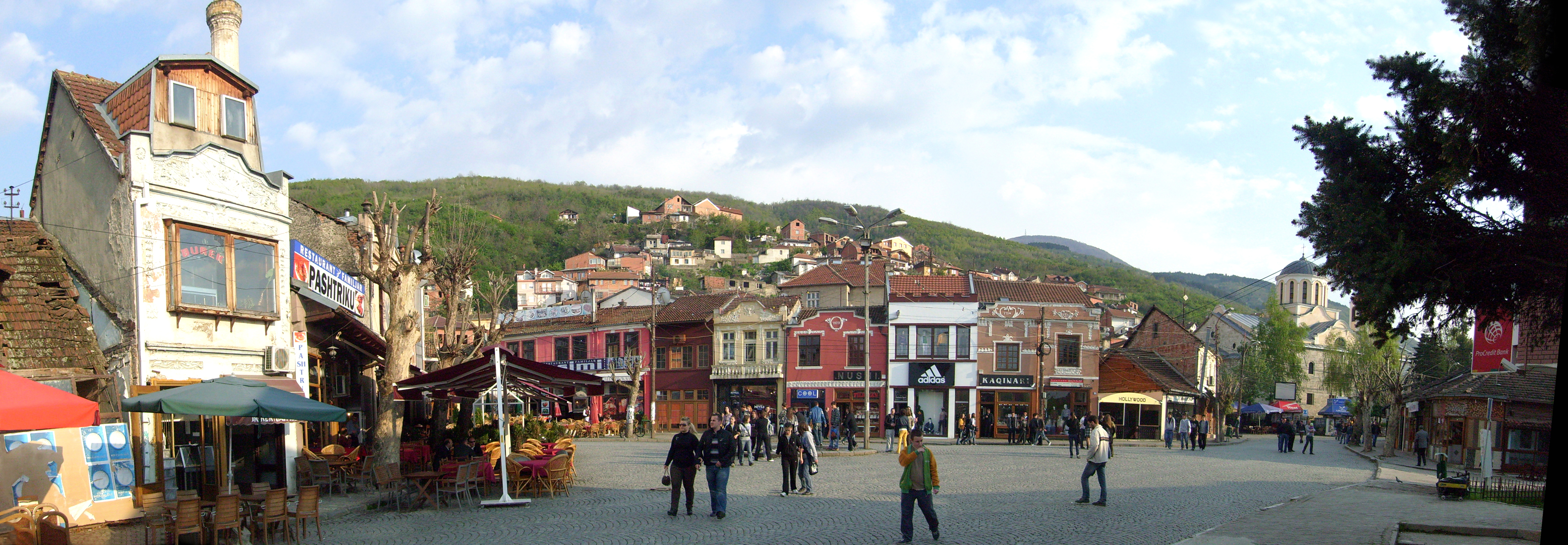 Sadirvan (Shadirvan): Prizren's symbolic place. This area is old bazaars square. The Şadirvan (fountain) in the square has become a name to the full square. (Prizren / Kosovo)